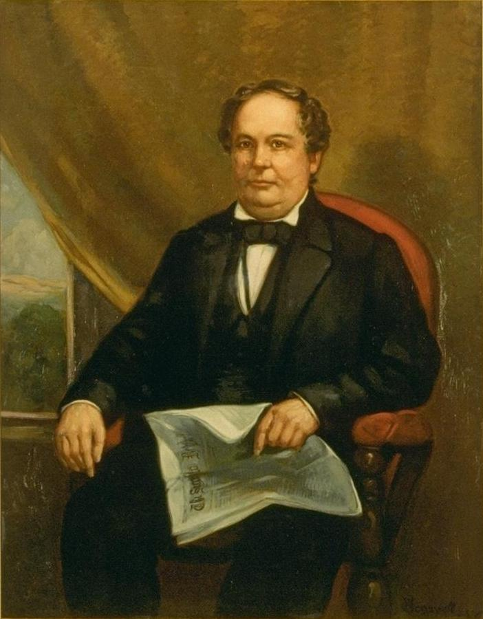 John Bigler (1805-1871), Governor of California 1852-56